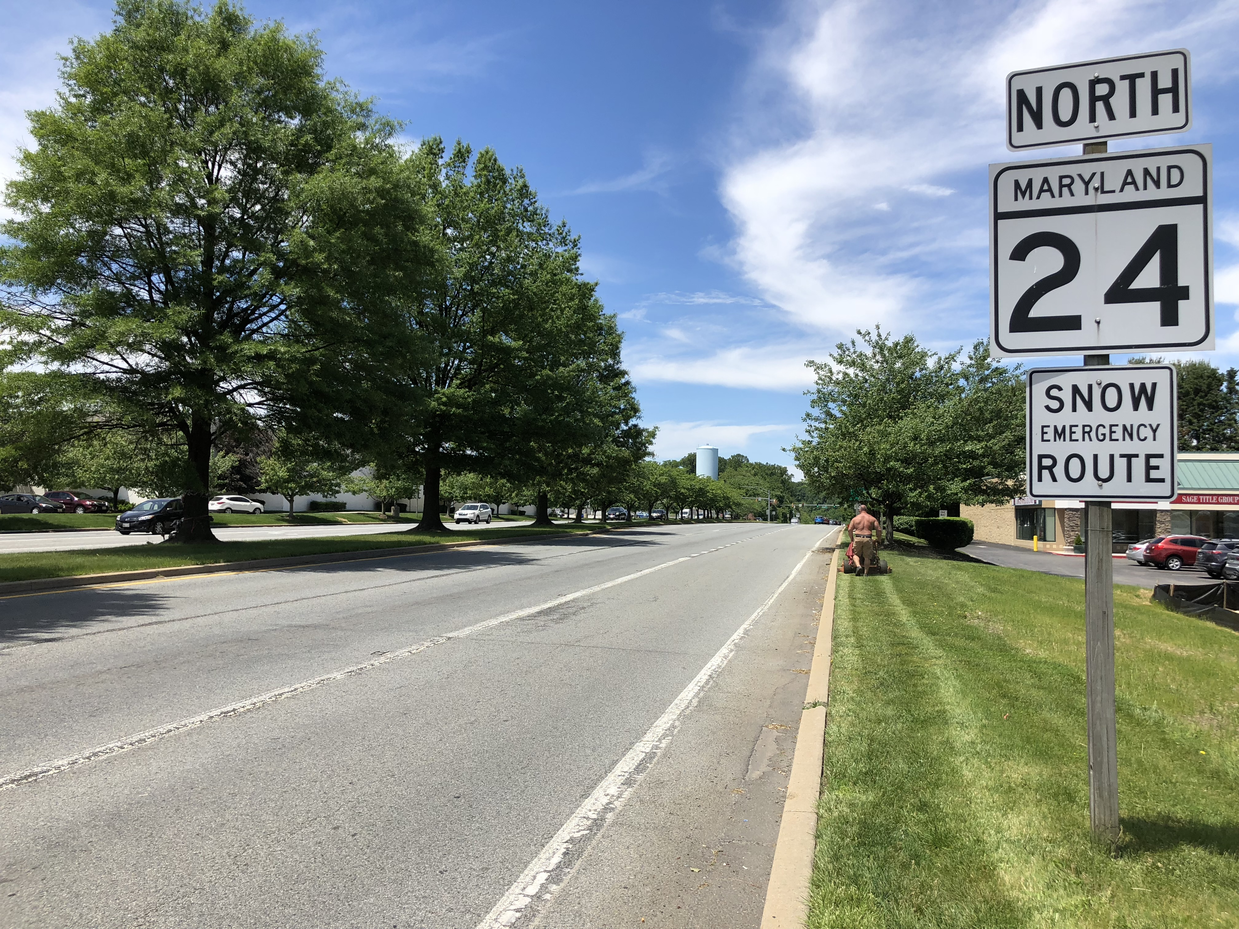 View north along Maryland State Route 24 (Vietnam Veterans Memorial Highway) just north of U.S. Route 1 Business (Baltimore Pike) in Bel Air, Harford County, Maryland